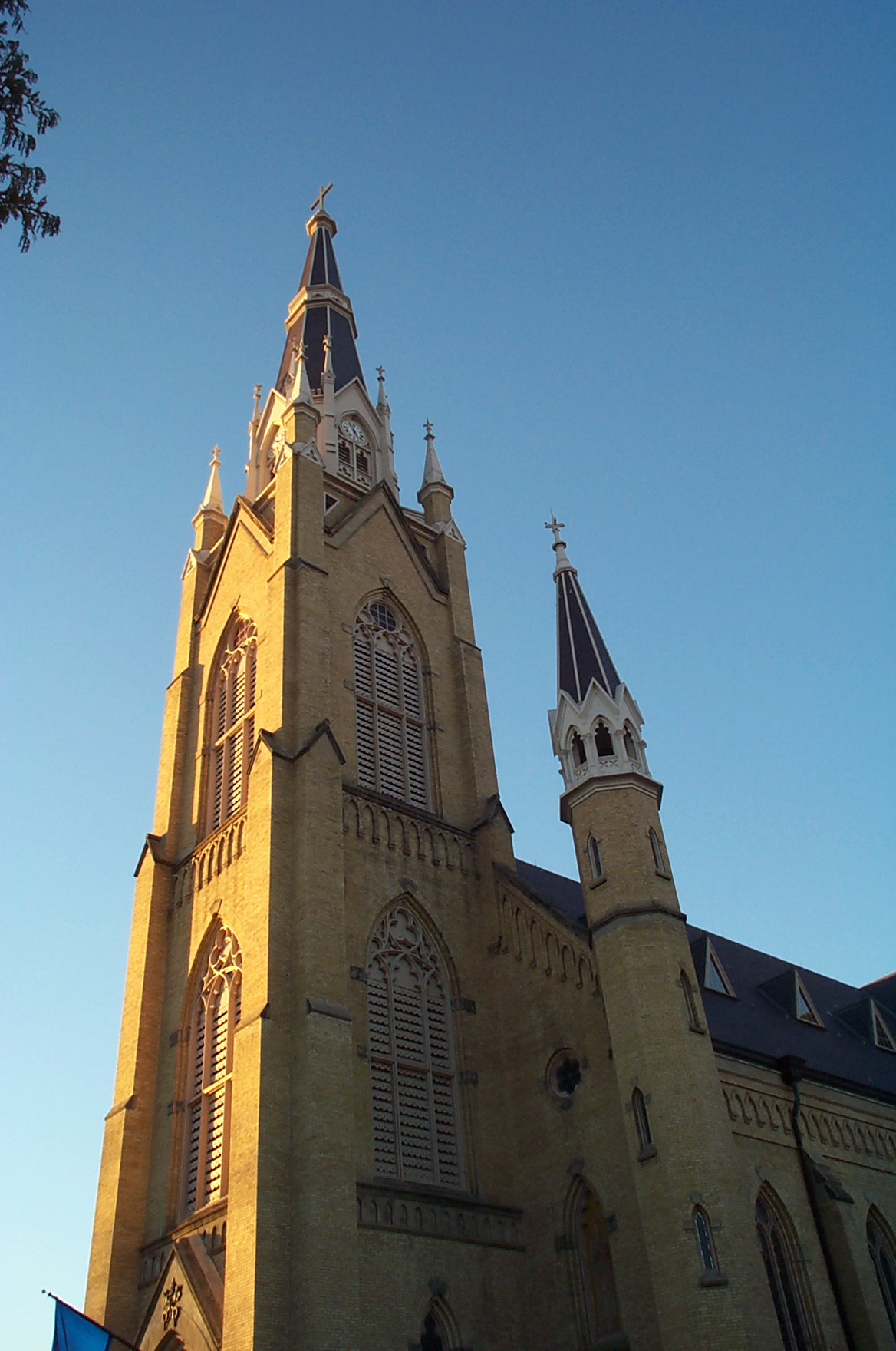 The Basilica of the Sacred Heart on the campus of the University of Notre Dame. Photograph taken 2005-11. Copyright © 2005 Kaihsu Tai.